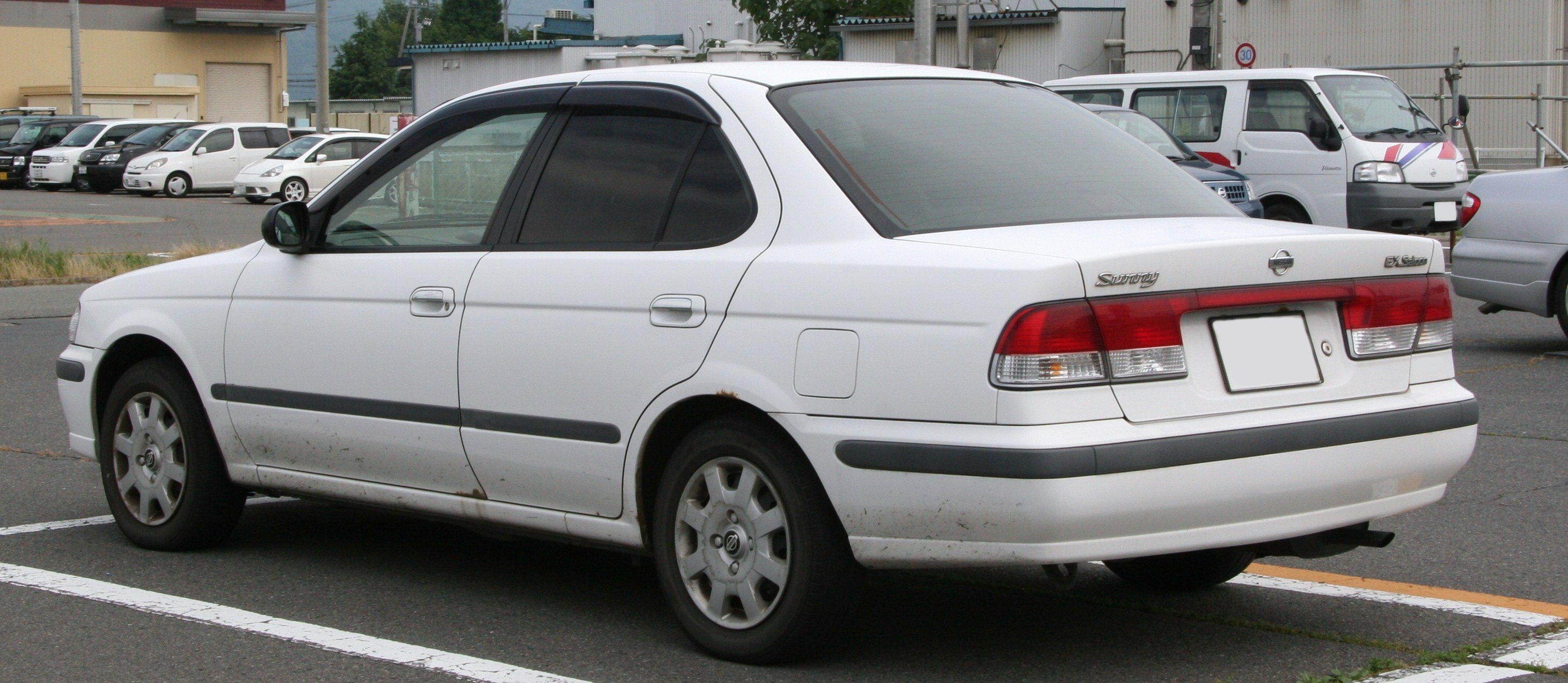 NISSAN Sunny